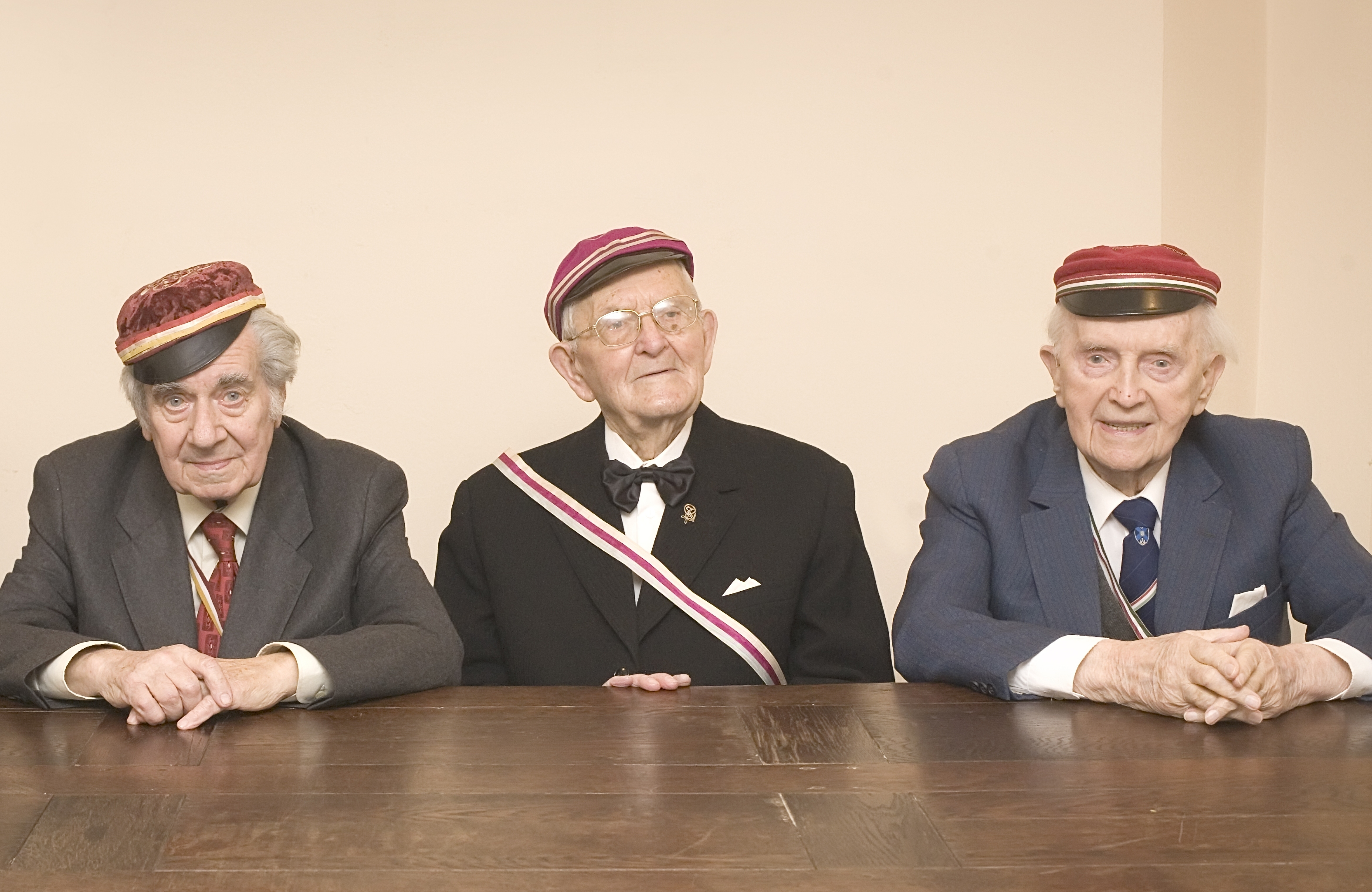 The picture shows the former Presidents of the Association of Filistrów Academic Corporation.